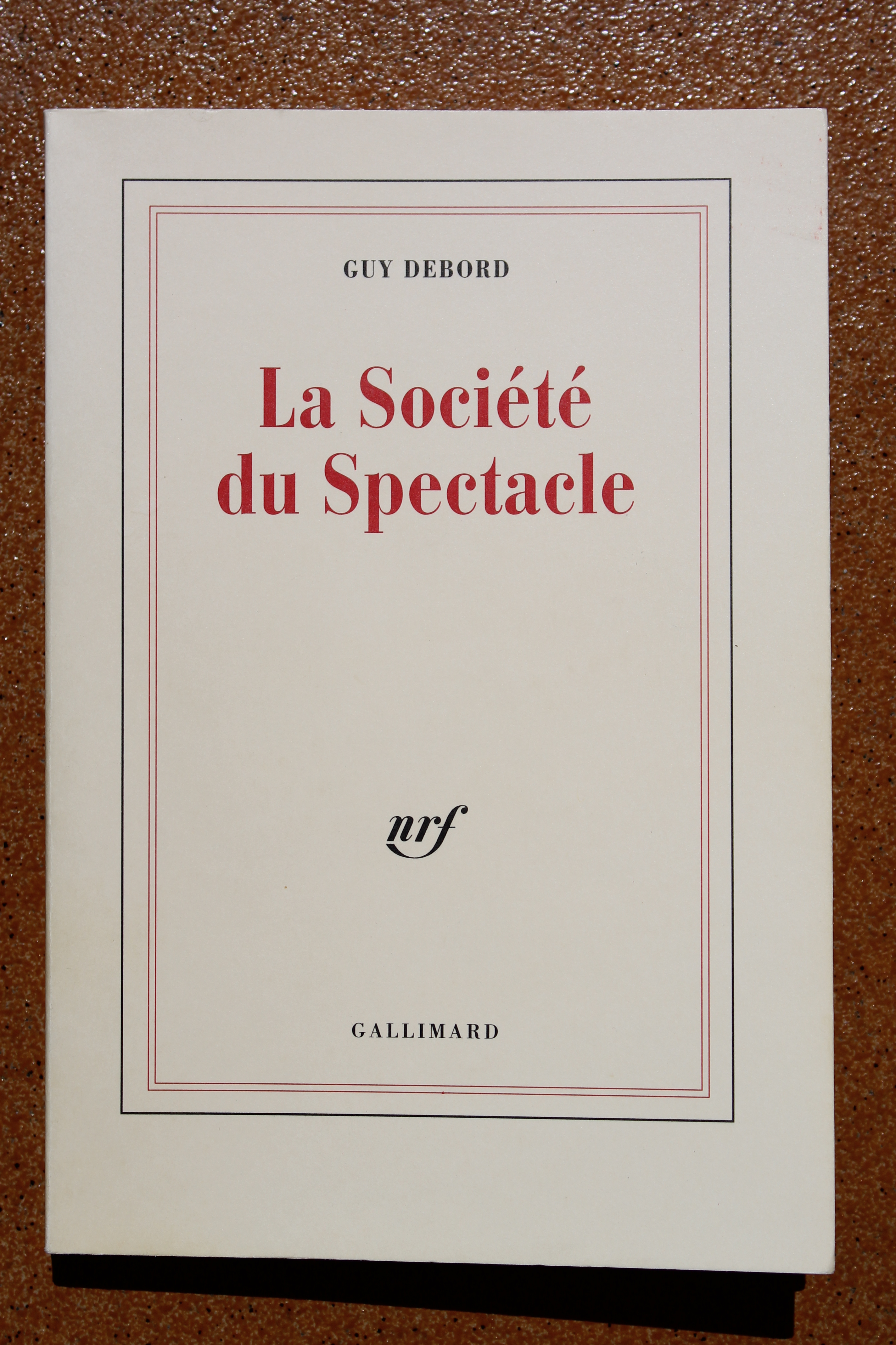 La Société du Spectacle cover